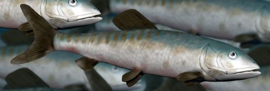 Crop of file in filename